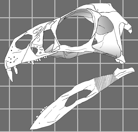 Skull reconstruction of Incisivosaurus gauthieri.